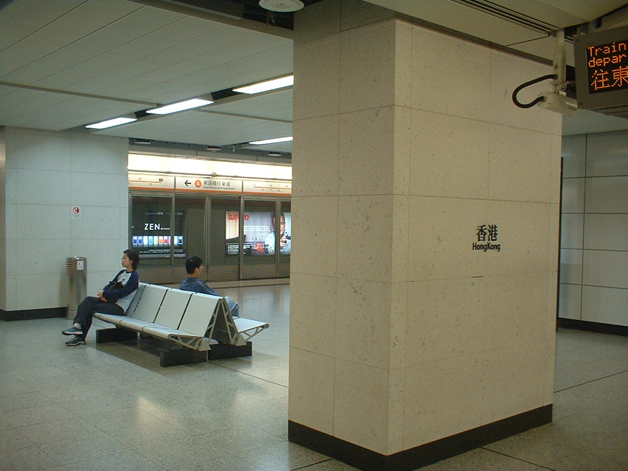 Hong Kong Station platforms for the Tung Chung Line.